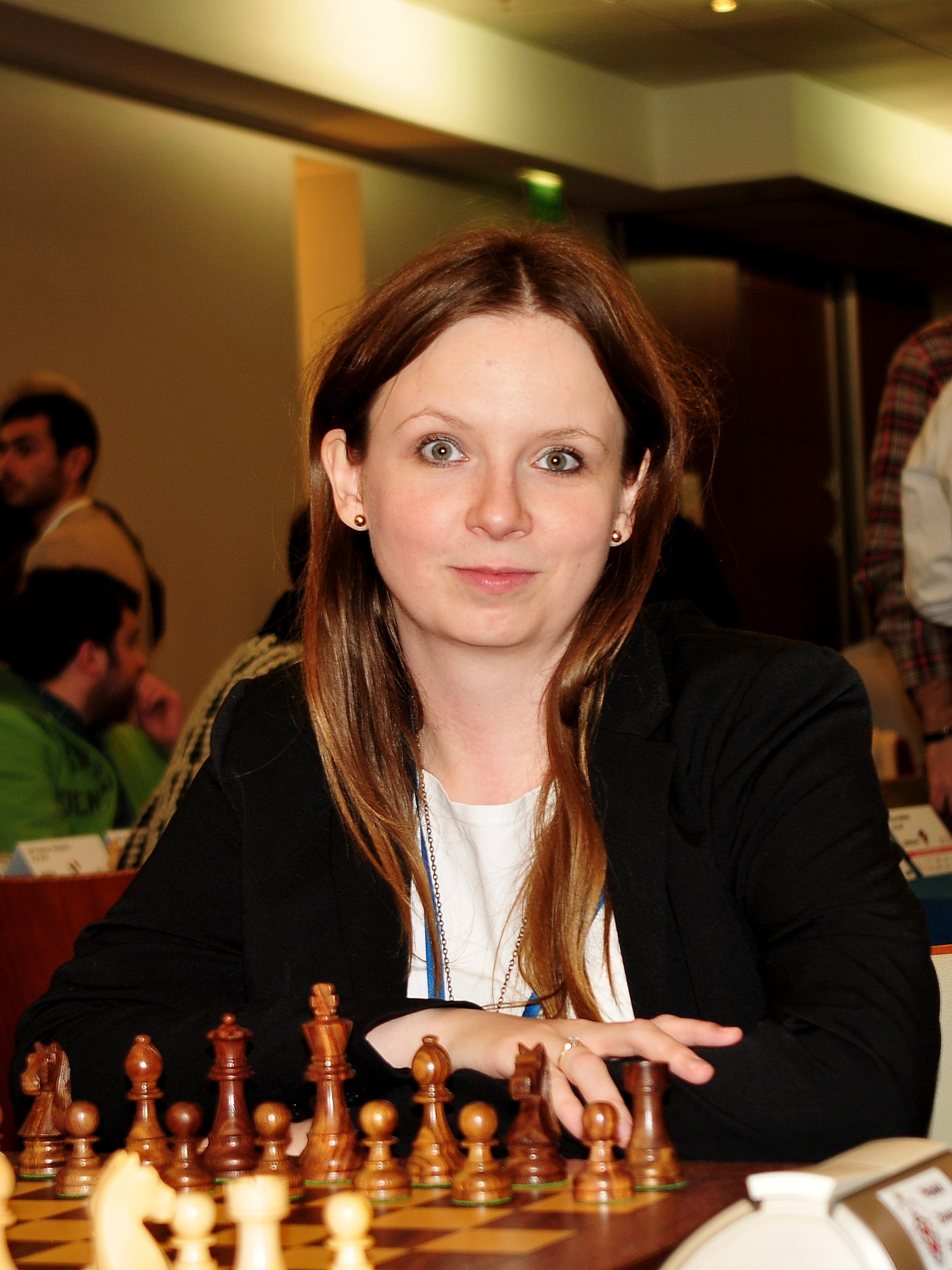 WGM Beata Kądziołka, European Chess Team Championship Warsaw 2013